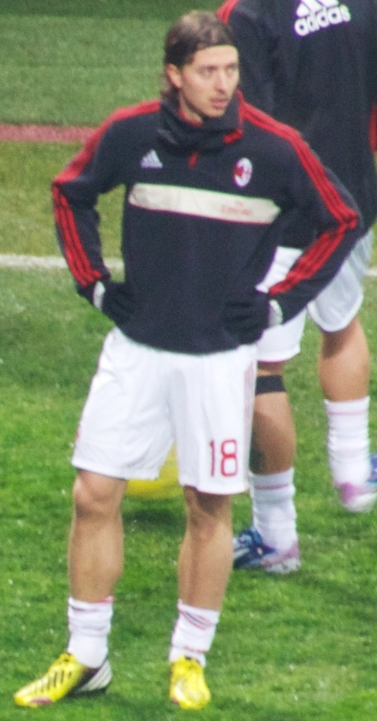 Riccardo Montolivo warm up with his team-mates before FC Internazionale Milano-AC Milan, february 2013